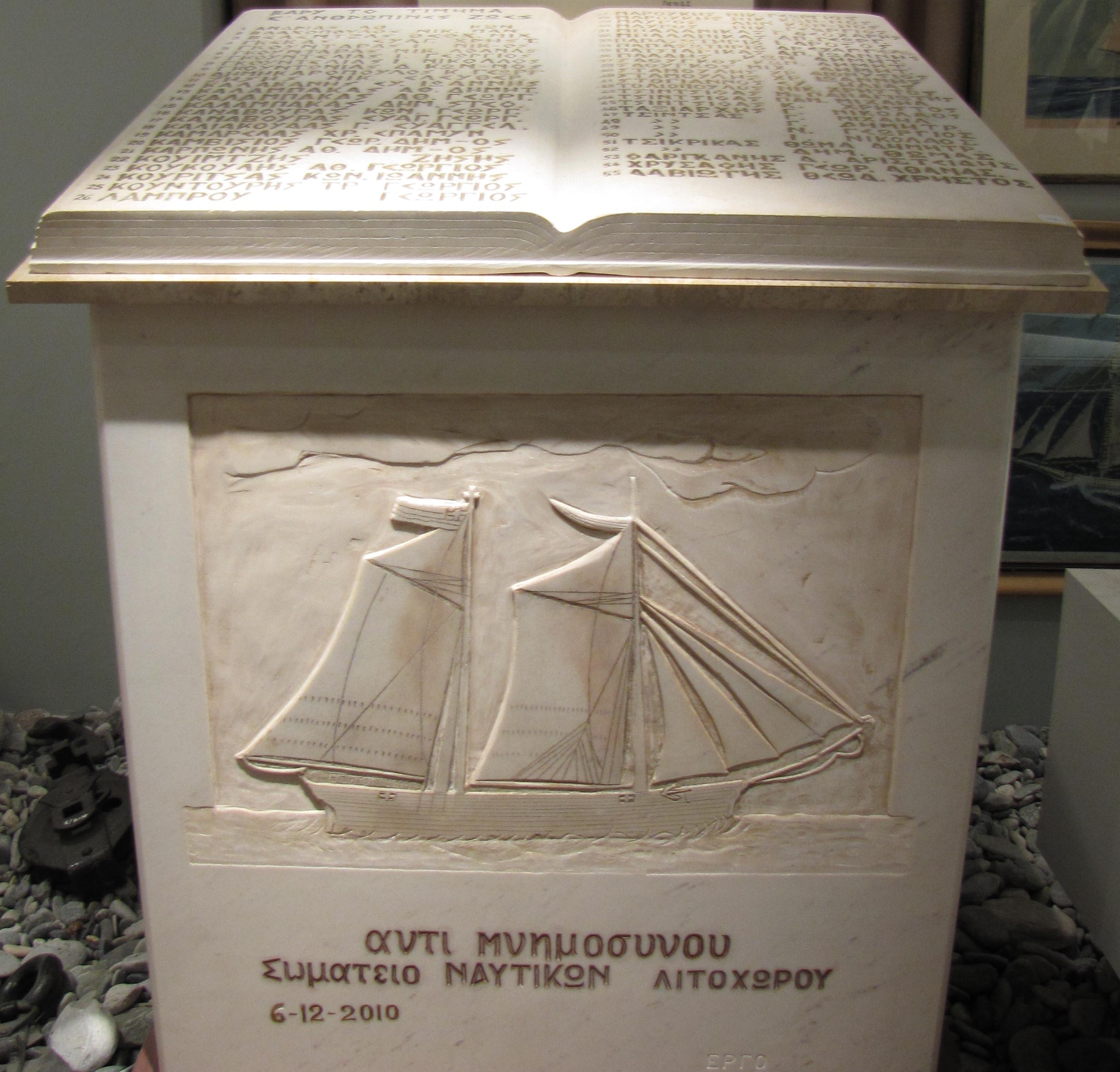 Memorial in the Maritime Museum